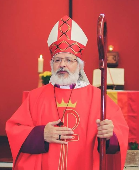 Bishop Naudal from Anglican Diocese of Parana